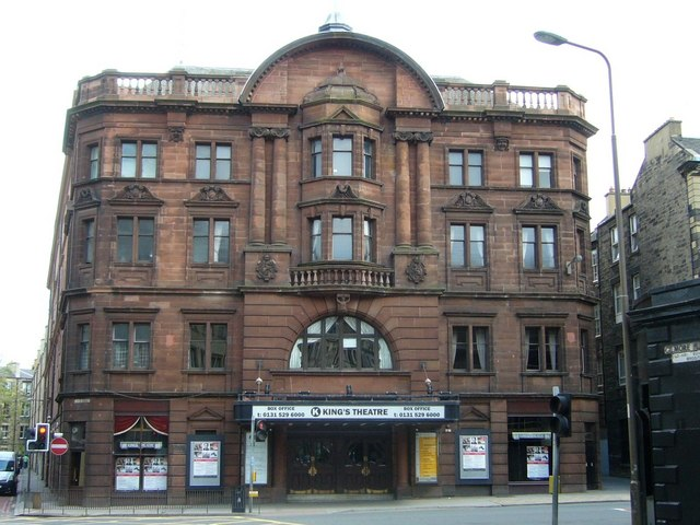 Edwardian theatre built in 1906. Its interior was renovated in the 1980s. Despite criticism over the years of its cramped stage and inadequate accommodation, it remains one of the central venues during the annual Edinburgh International Festival. Its Christmas pantomimes brighten up Edinburgh winters.